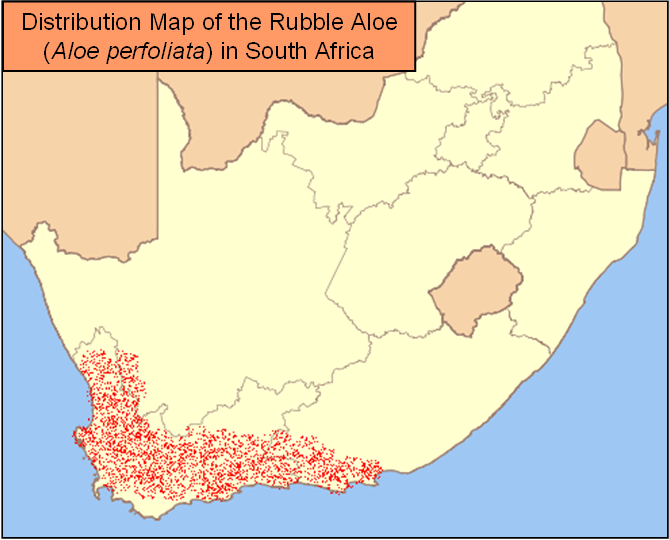 Distribution Map of Aloe perfoliata in South Africa. Distribution matches the extent of the Fynbos vegetation of Cape Floristic Region. Map created using information from common knowledge and public Red Data List of South African species.